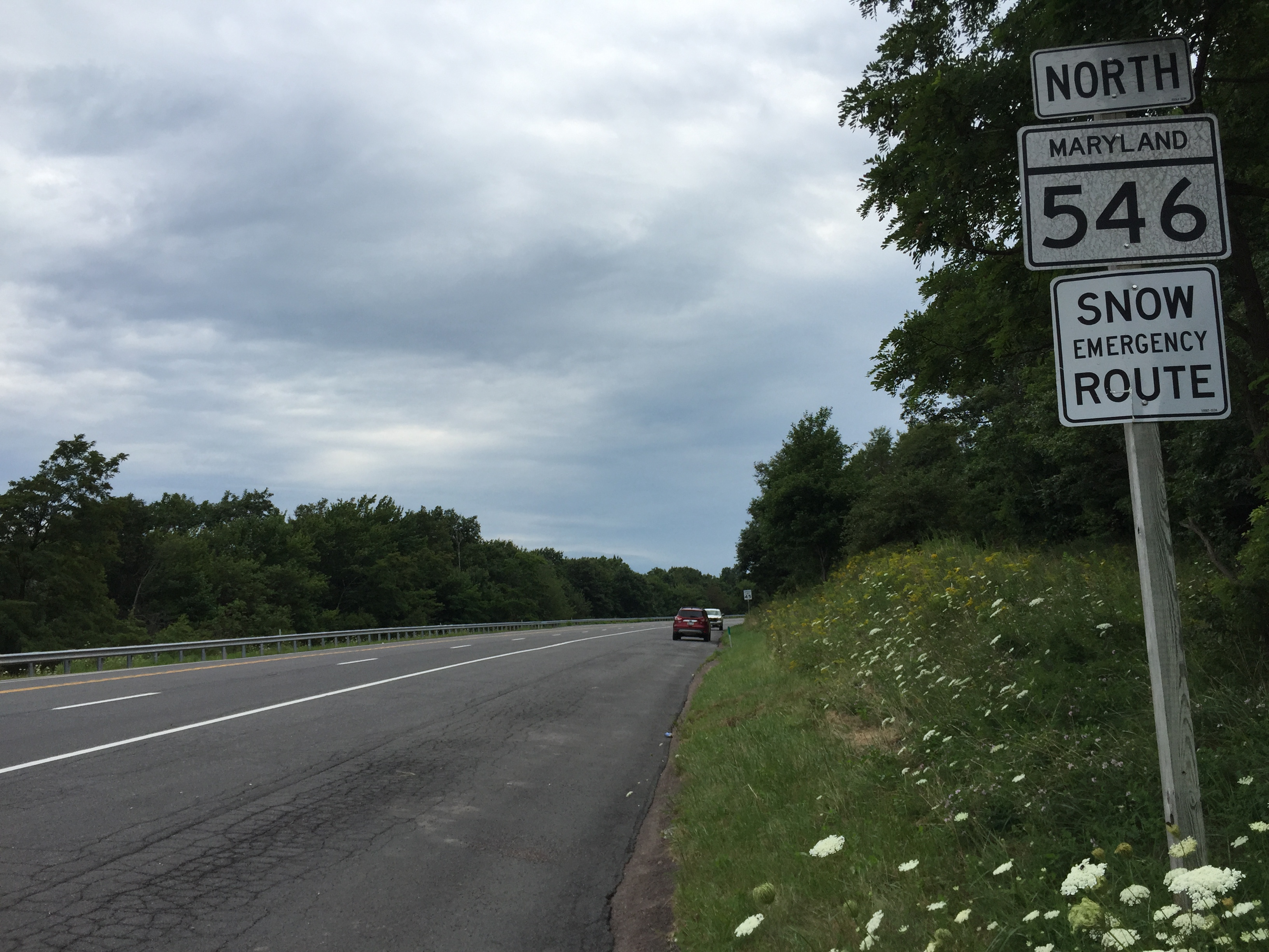 View north along Maryland State Route 546 (Beall School Road) just north of Interstate 68 and U.S. Route 40 (National Freeway) in eastern Garrett County, Maryland